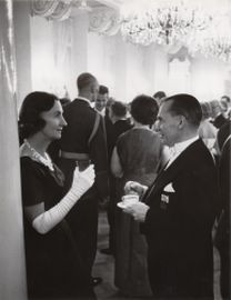 The Finnish author Walentin Chorell (1912–1983) and his wife Ether Chorell at the Independence Day ball.